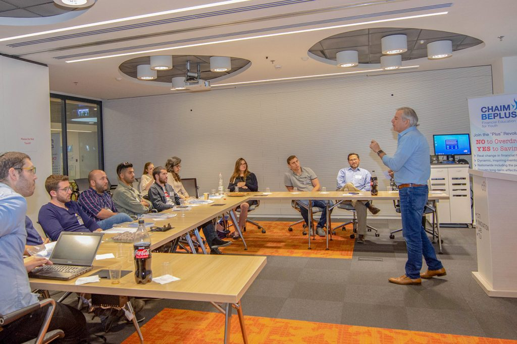 חיים בפלוס כנס